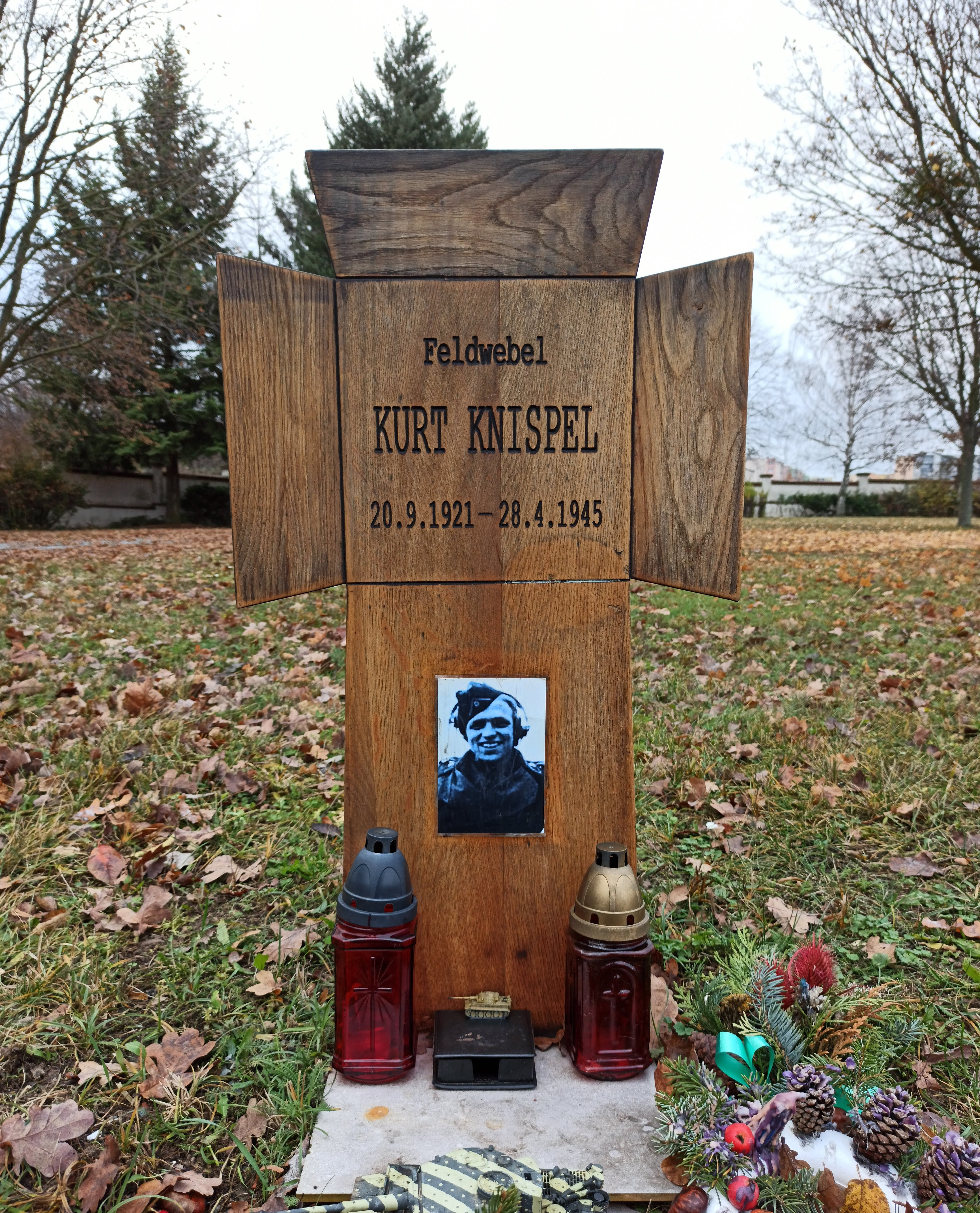 Grave of feldwebel Kurt Knispel in Brno's Central graveyard.